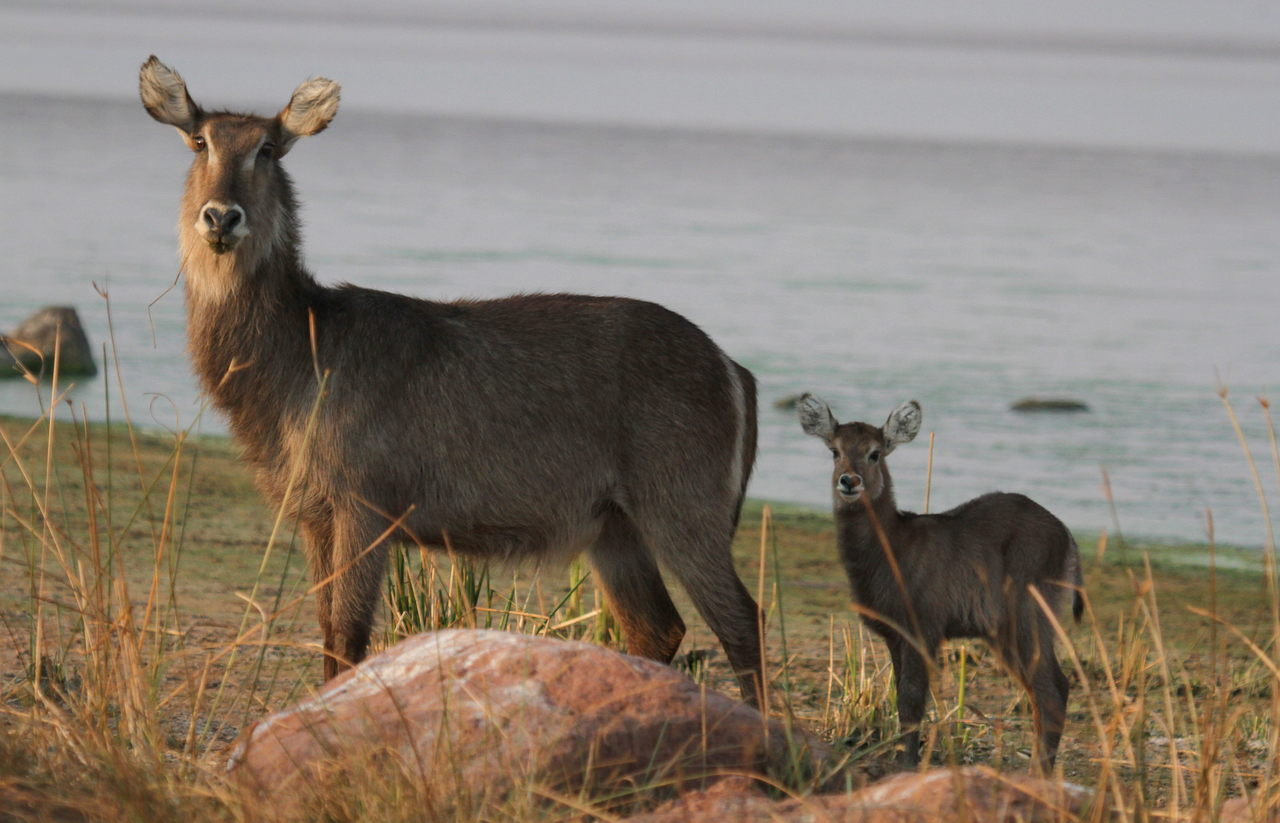 Waterbuck, Kobus ellipsiprymnus at Borakalalo National Park, South Africa